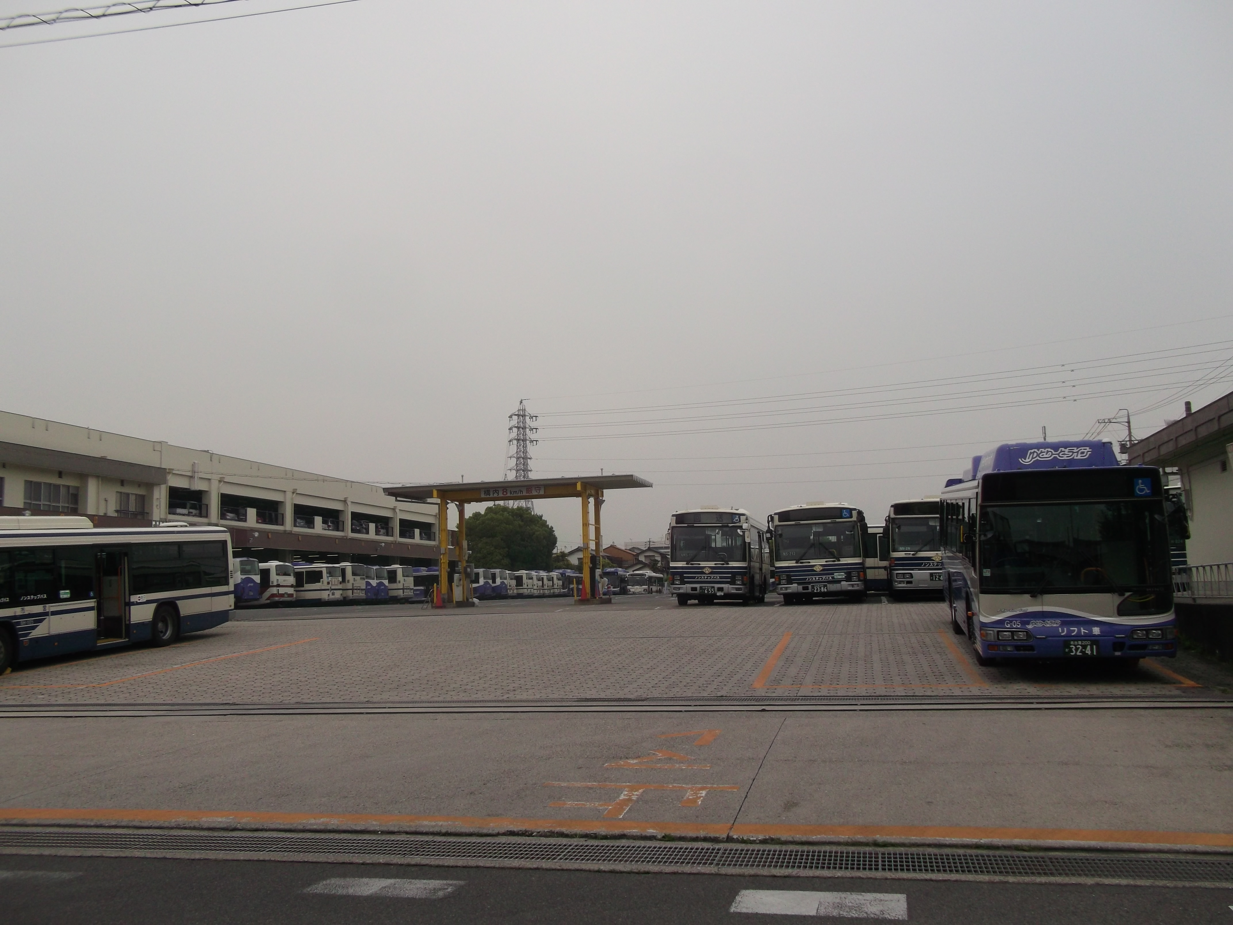 Nagoya City Bus Omori Depot in Moriyama-ku, Nagoya City